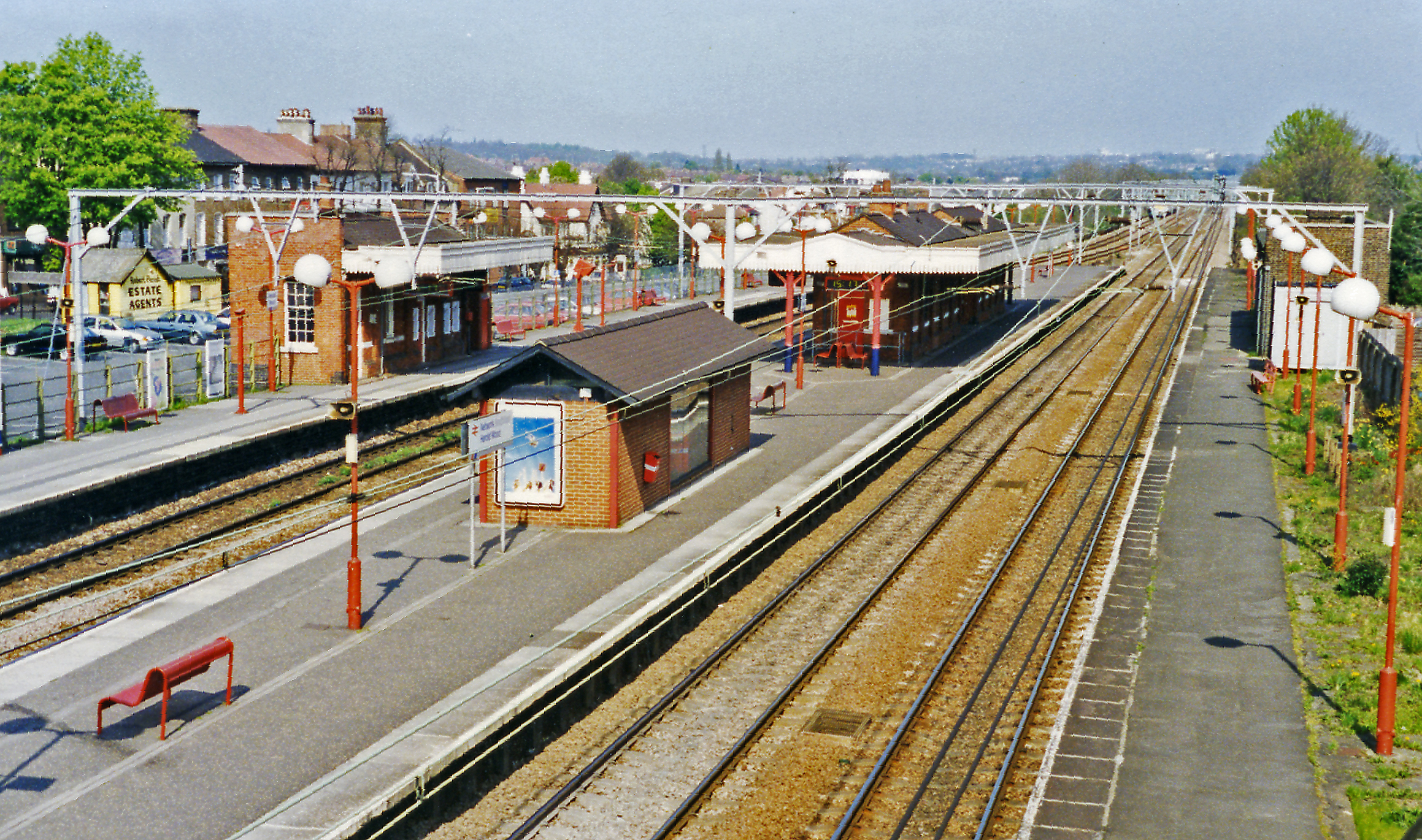 Harold Wood station. View NE, towards Chelmsford, Colchester etc.: ex-GE London Liverpool Street - Colchester etc. etc. main line, electrfied through here to Chelmsford by 6/56 at 1500V DC, converted to (6.25kV AC as far as Shenfield, 25kV beyond) from 11/60.